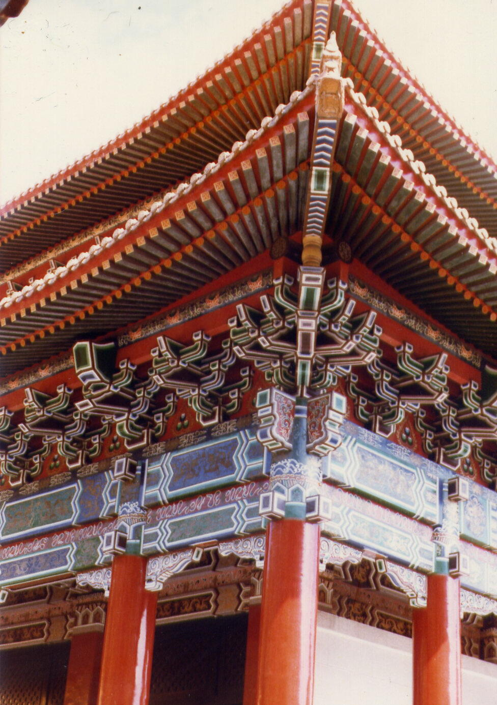 Roof of a temple in Taipei.